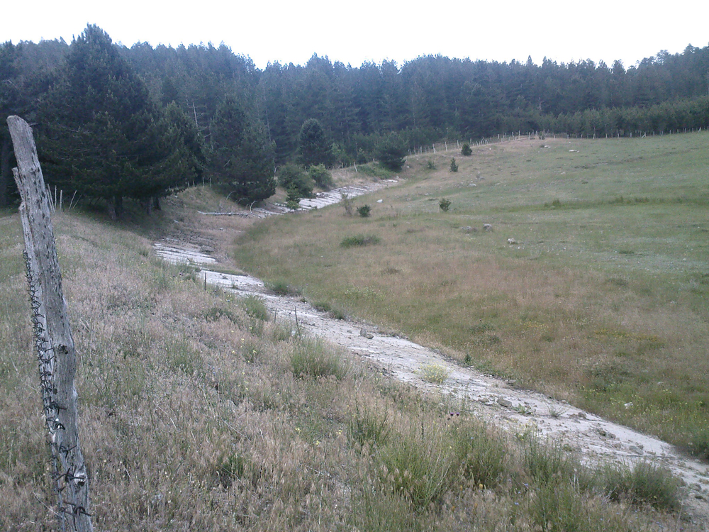 Sila National Park - Lake Votturino, the valley 1